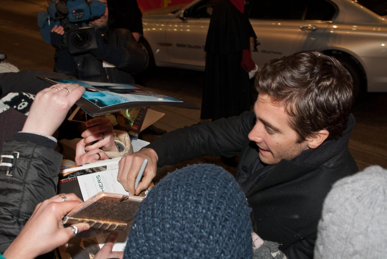 American actor Jake Gyllenhaal, Opening of the 62nd Berlin International Film Festival.